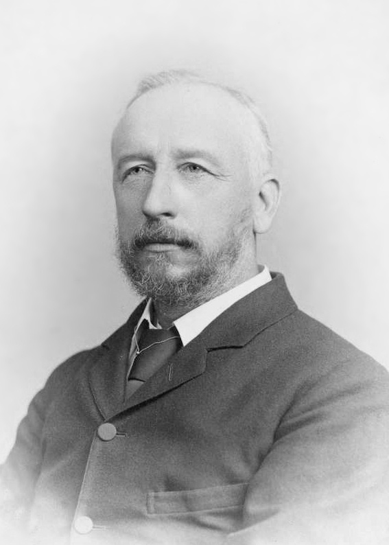 David Gill, from the Lick Observatory collection.